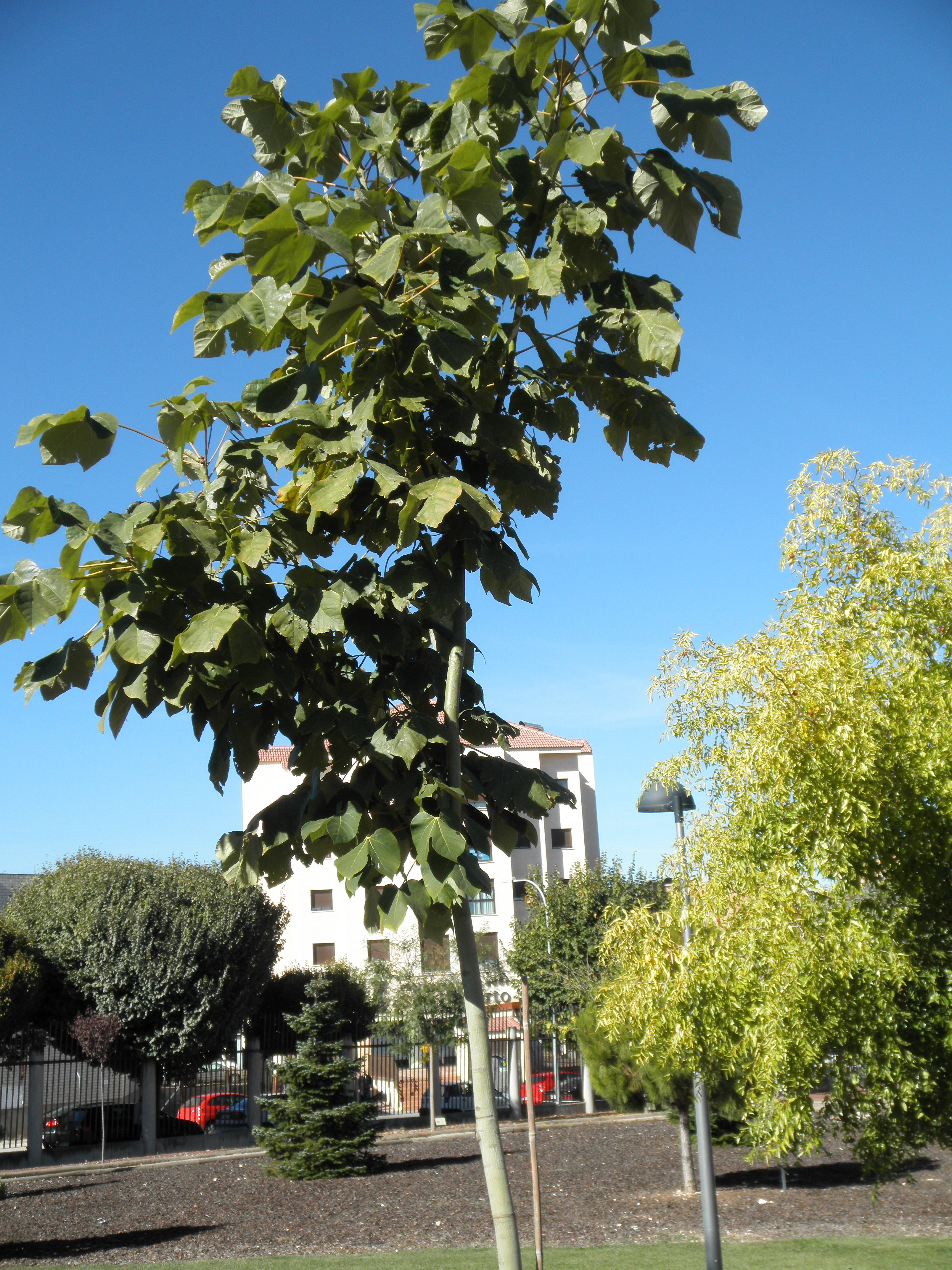 Firmiana simplex habit, Parque El Pilar de Ciudad Real, Spain